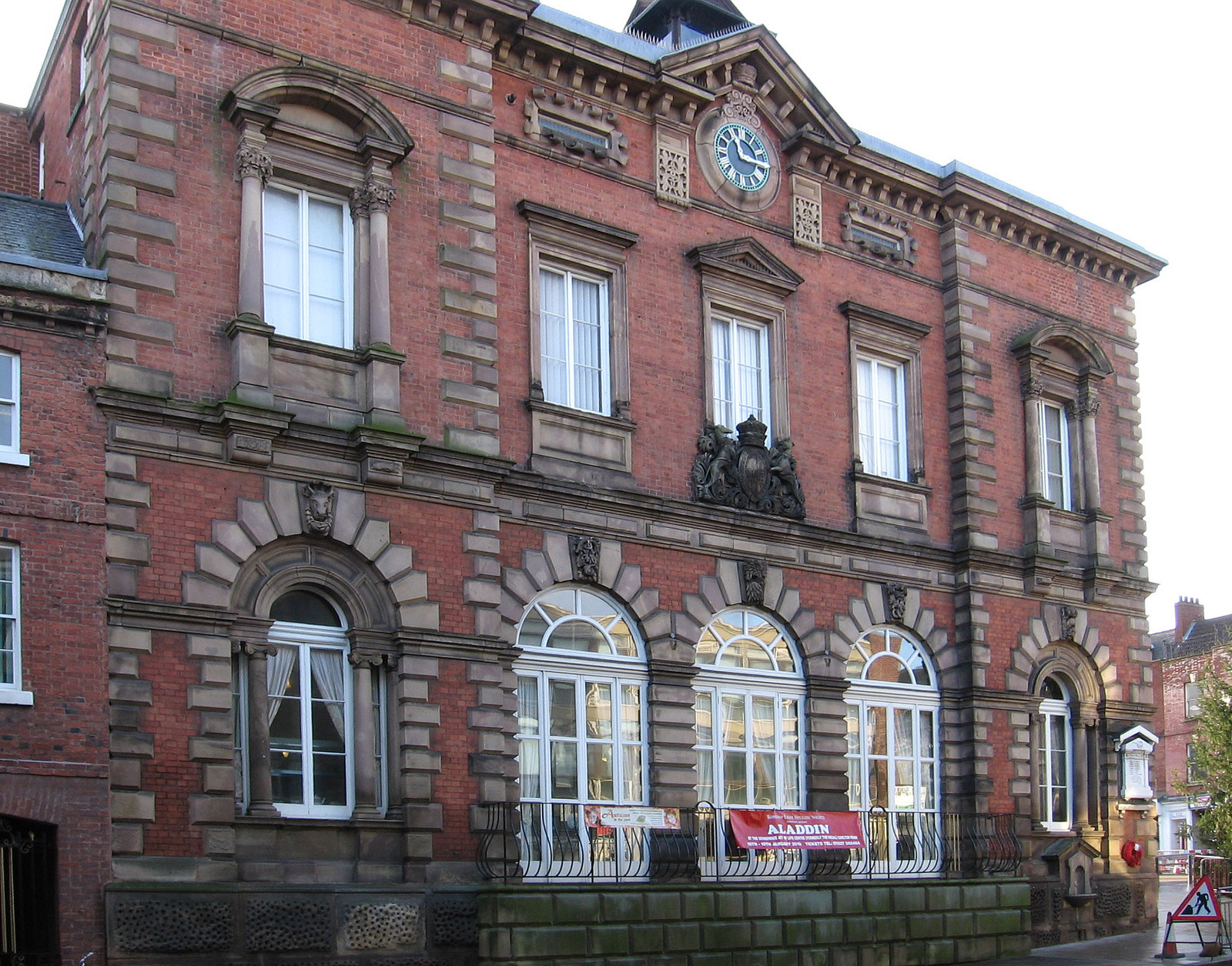 Worksop - Town Hall